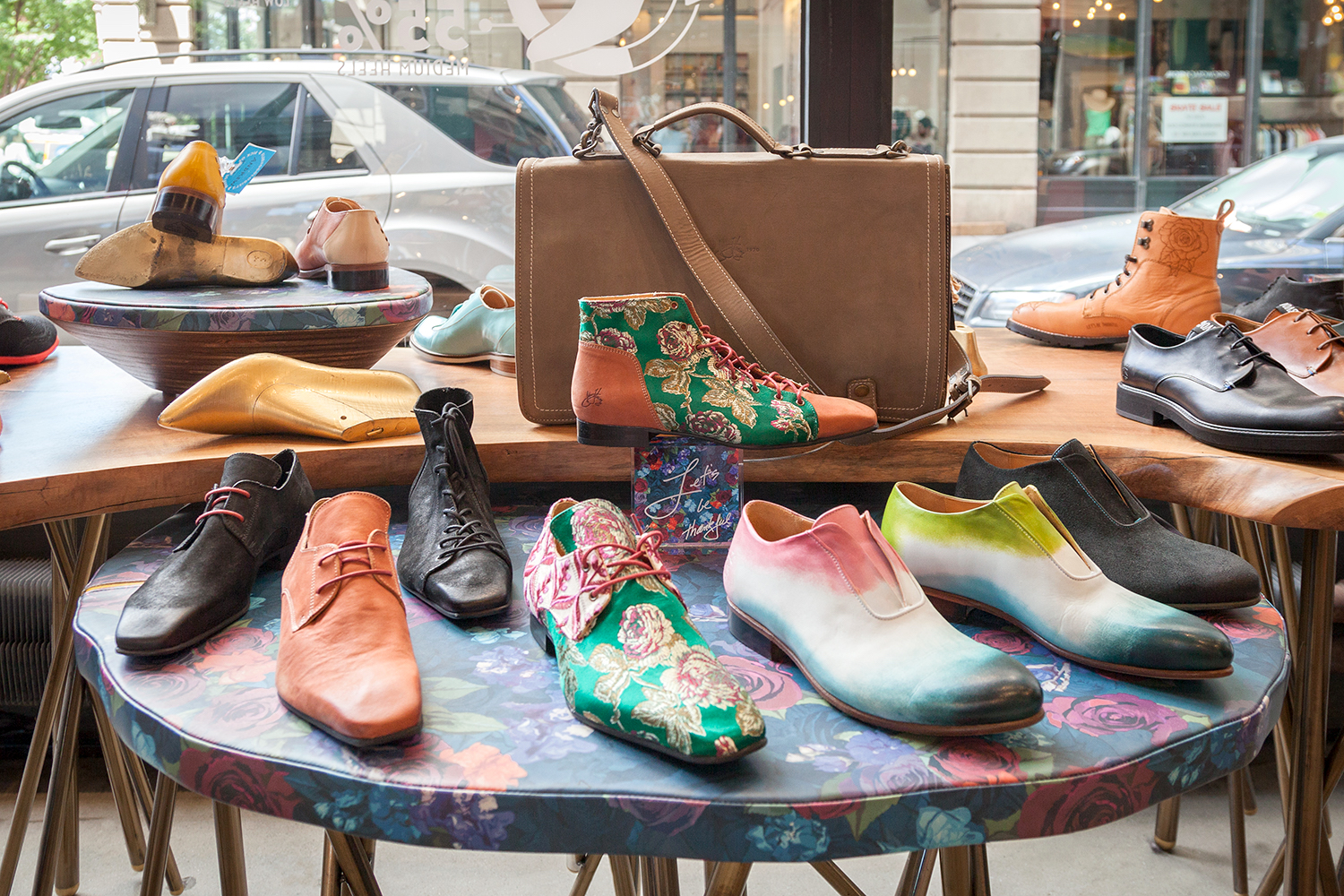 John Fluevog store display in DUMBO (Photo gallery of DUMBO, Brooklyn)